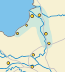 Dutch urban centers in the Eastern cities (Dutch Hanseatic cities) around the 14th/15th century. Except that they were not Dutch during that time